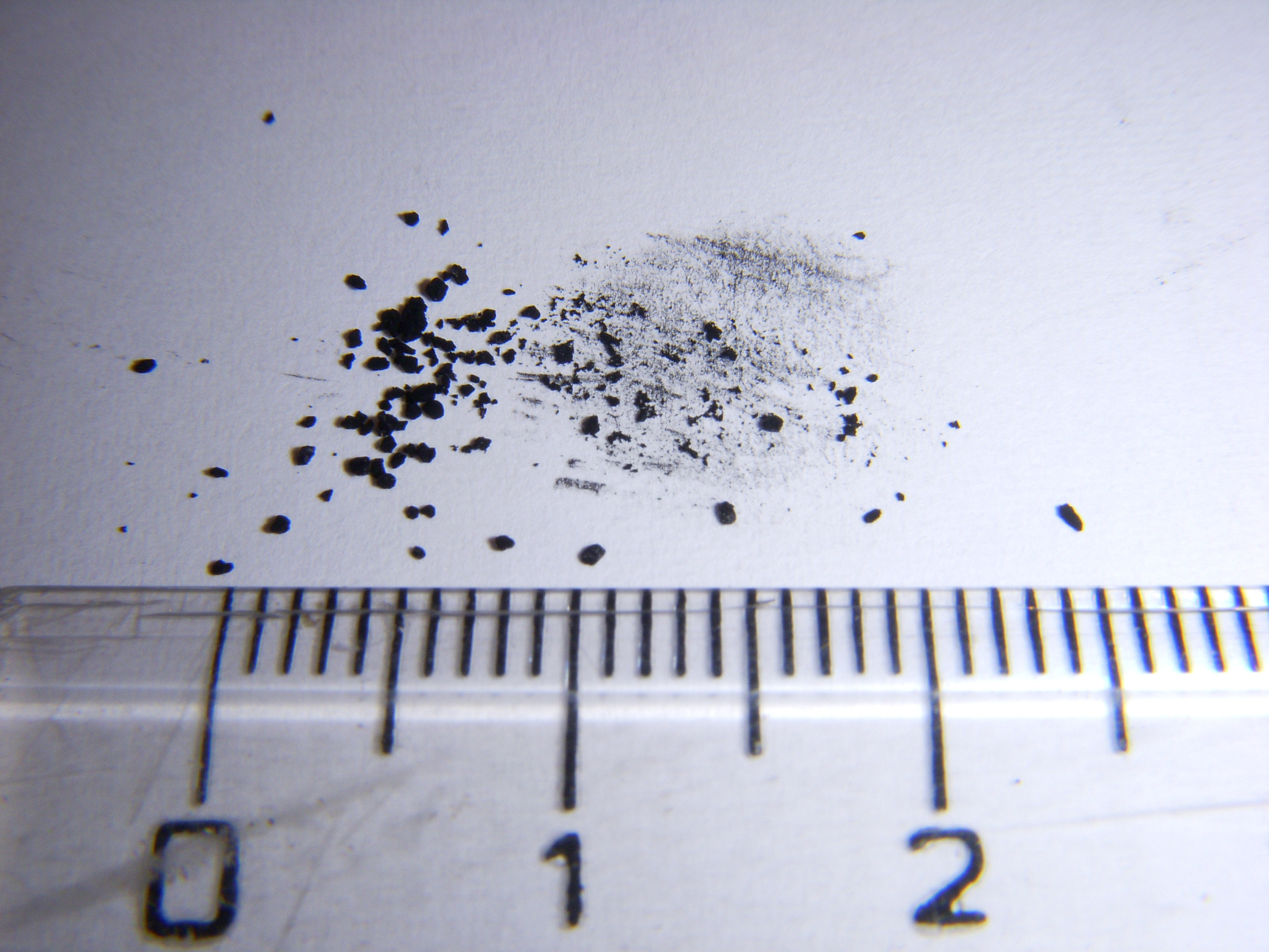 Multiwalled carbon nanotubes. 3-15 walls, mean inner diameter 4nm, mean outer diameter 13-16 nm, length 1-10+ micrometers. Black clumpy powder, grains shown, partially smeared on paper. Obtained from store. Scale in centimeters.